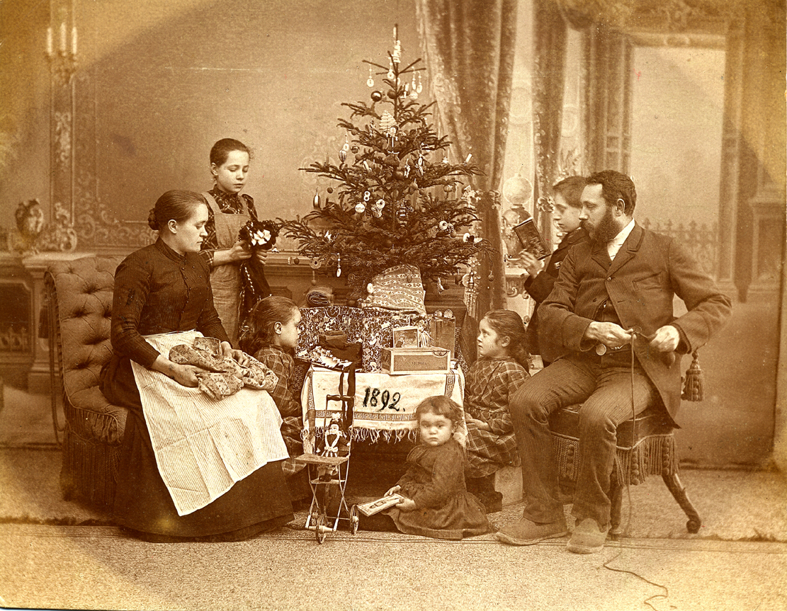 Christmas Eve, [Germany?], 1892.